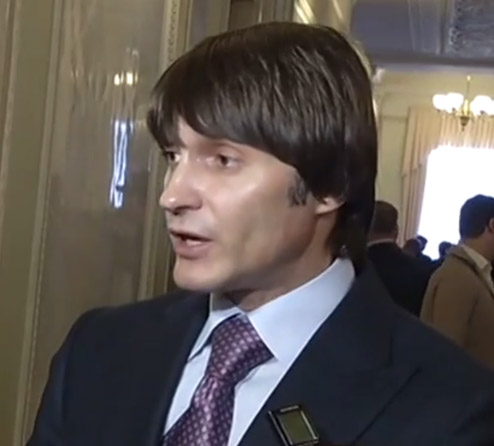 Ihor Yeremeyev, Ukrainian politician, member of the Ukrainian Verkhovna Rada